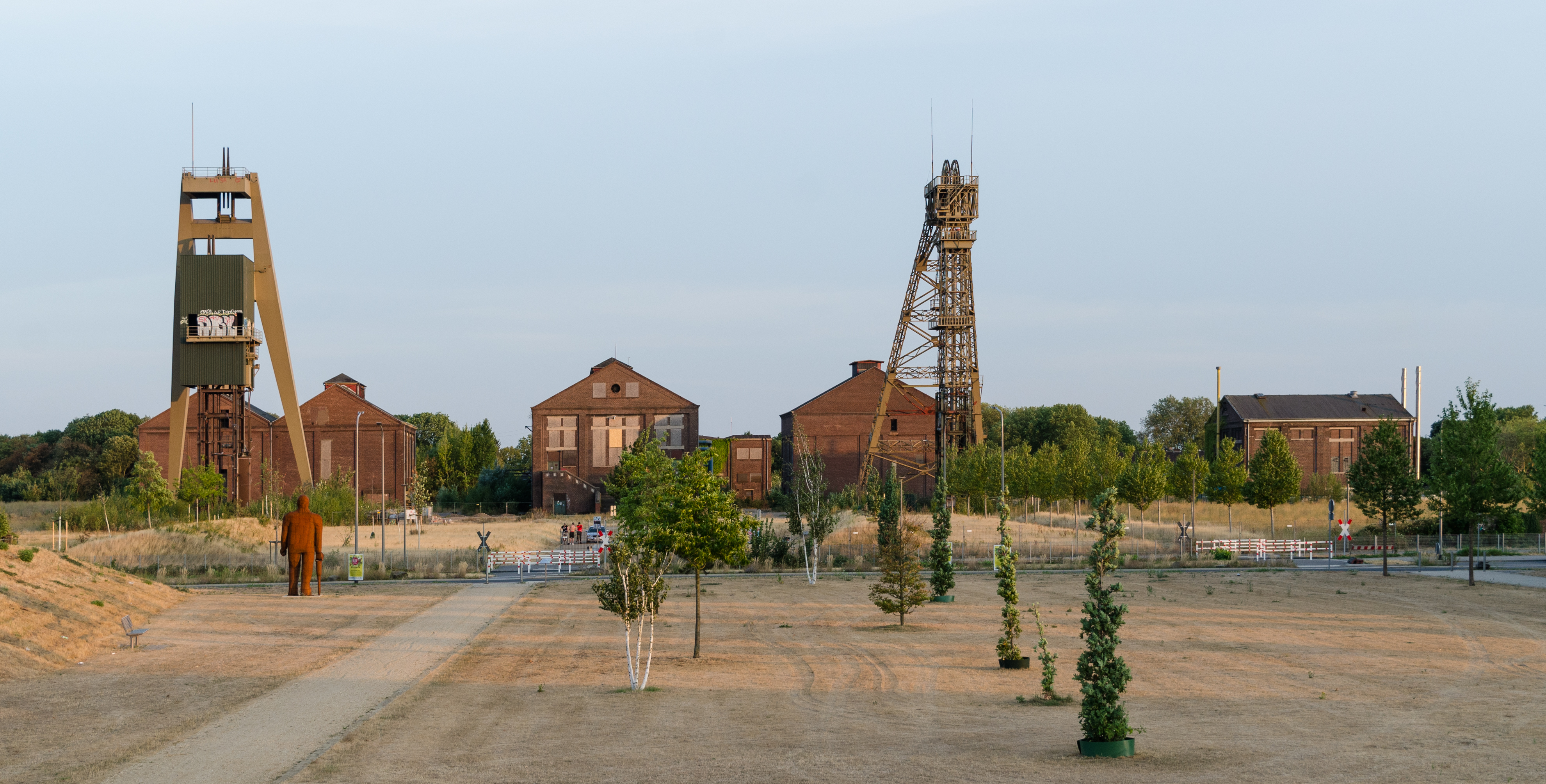 Neukirchen-Vluyn (North Rhine-Westphalia, Germany) – Niederberg Coal Mine – Shafts 1 & 2 – view from the north during the golden hour